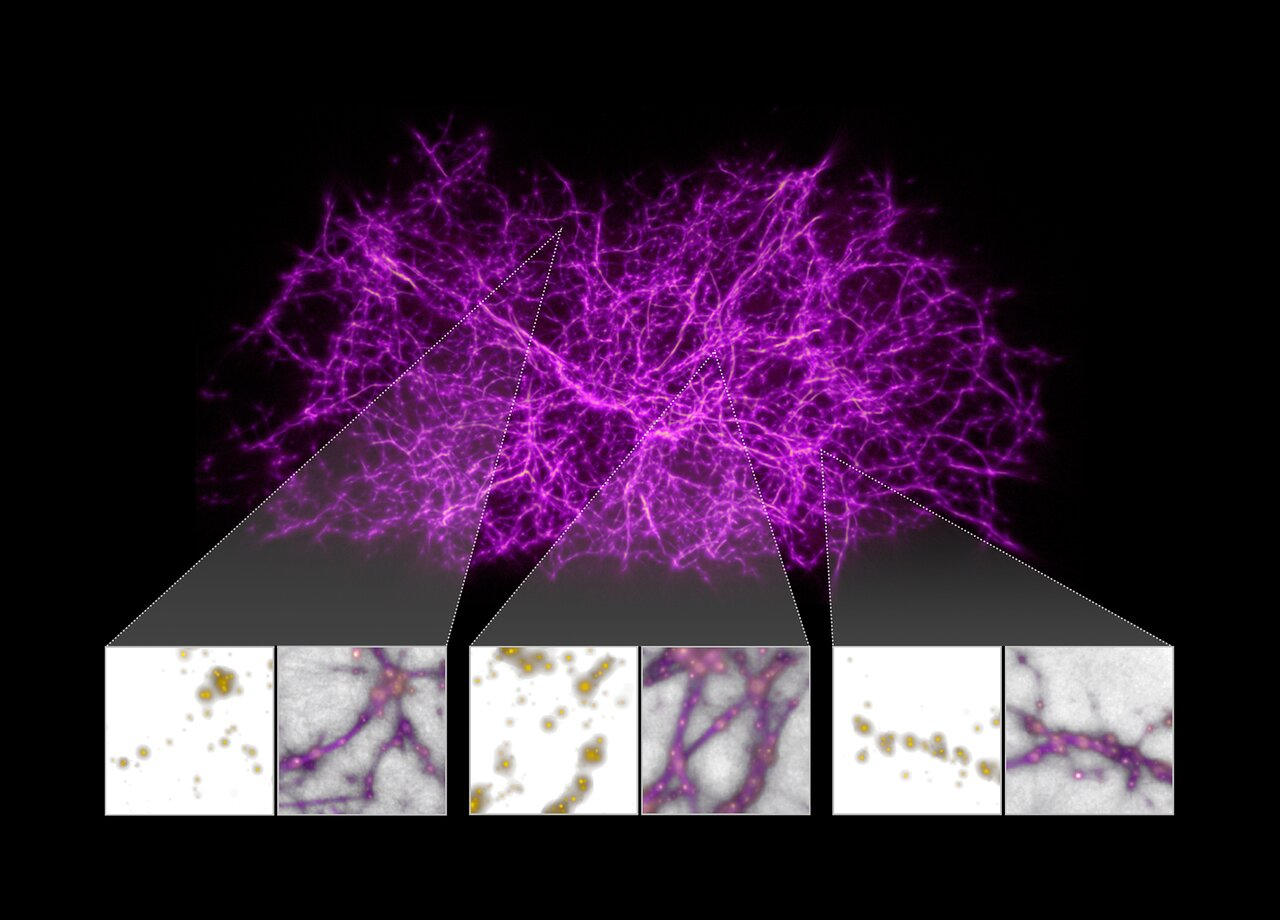 Astronomers have gotten creative in trying to trace the elusive cosmic web, the large-scale backbone of the cosmos. Researchers turned to slime mold, a single-cell organism found on Earth, to help them build a map of the filaments in the local universe (within 500 million light-years from Earth) and find the gas within them. The researchers designed a computer algorithm inspired by the organism's behavior and applied it to data containing the positions of 37,000 galaxies ("food" for the slime mold) mapped by the Sloan Digital Sky Survey. The algorithm produced a three-dimensional map of the underlying cosmic web's intricate filamentary network, the purple structure in the image. The three sets of inset boxes show some of those individual galaxies that were "fed" to the slime mold and the filamentary structure connecting them. The galaxies are represented by the yellow dots in three of the inset images. Next to each galaxy snapshot is an image of the galaxies with the cosmic web's connecting strands (purple) superimposed on them.